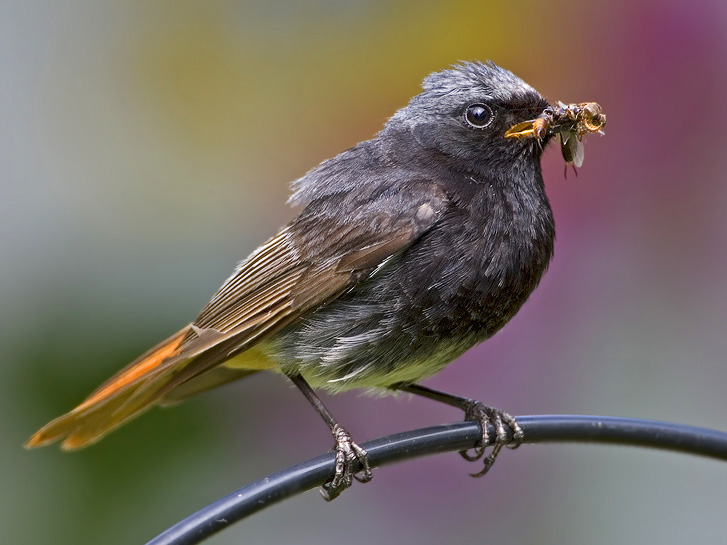 Male Black Redstart (Phoenicurus ochruros gibraltariensis) with prey